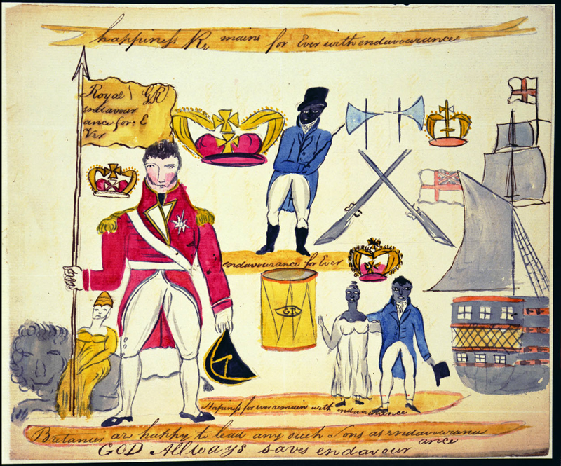 Description: Sketch of a flag taken from rebels against slavery in Barbados, after the uprising known as Bussa's Rebellion. The flag appears to stress the rebels' loyalty to Britain and to the Crown while conveying their earnest desire for liberty. British forces on Barbados suppressed the revolt and hundreds of the rebels were killed. Learn more about Bussa's Rebellion on The National Archives website. Date: April 1816 Our Catalogue Reference: MFQ 1/112 This image is from the collections of The National Archives. Feel free to share it within the spirit of the Commons. For high quality reproductions of any item from our collection please contact our image library.